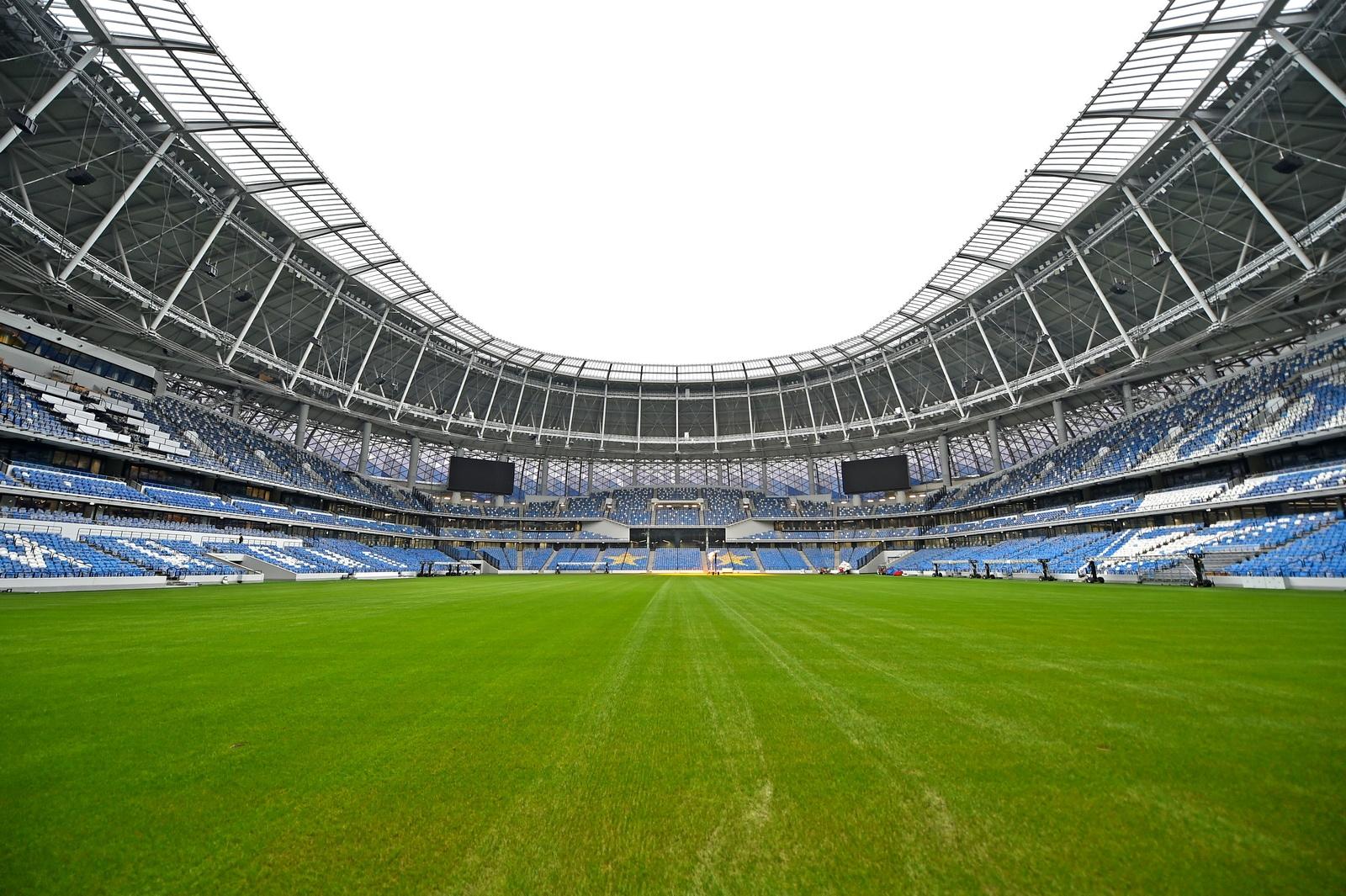 VTB Arena in Moscow